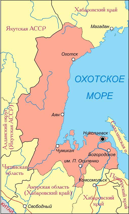 Map of Nizhne-Amurskaja oblast (USSR) in 1946